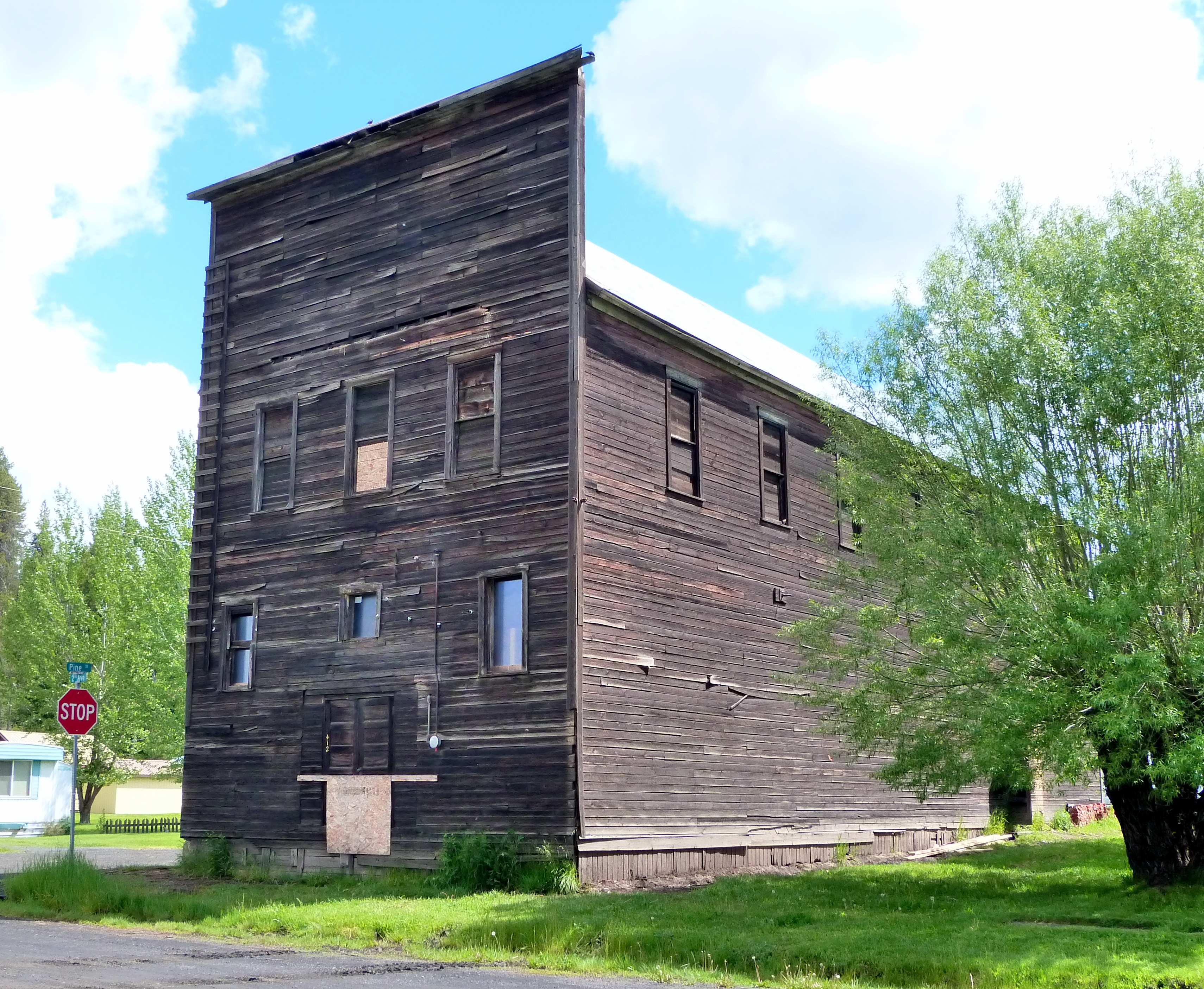 The historic Bovill Opera House (built before 1911, precise date unknown), located at 412 2nd Avenue in Bovill, Idaho, United States, is listed on the US National Register of Historic Places.